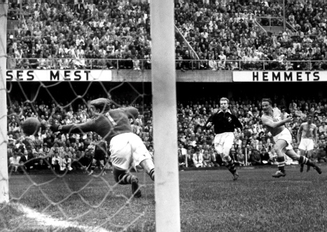 Kjell Rosén scoring for Malmö FF against AIK 1950.